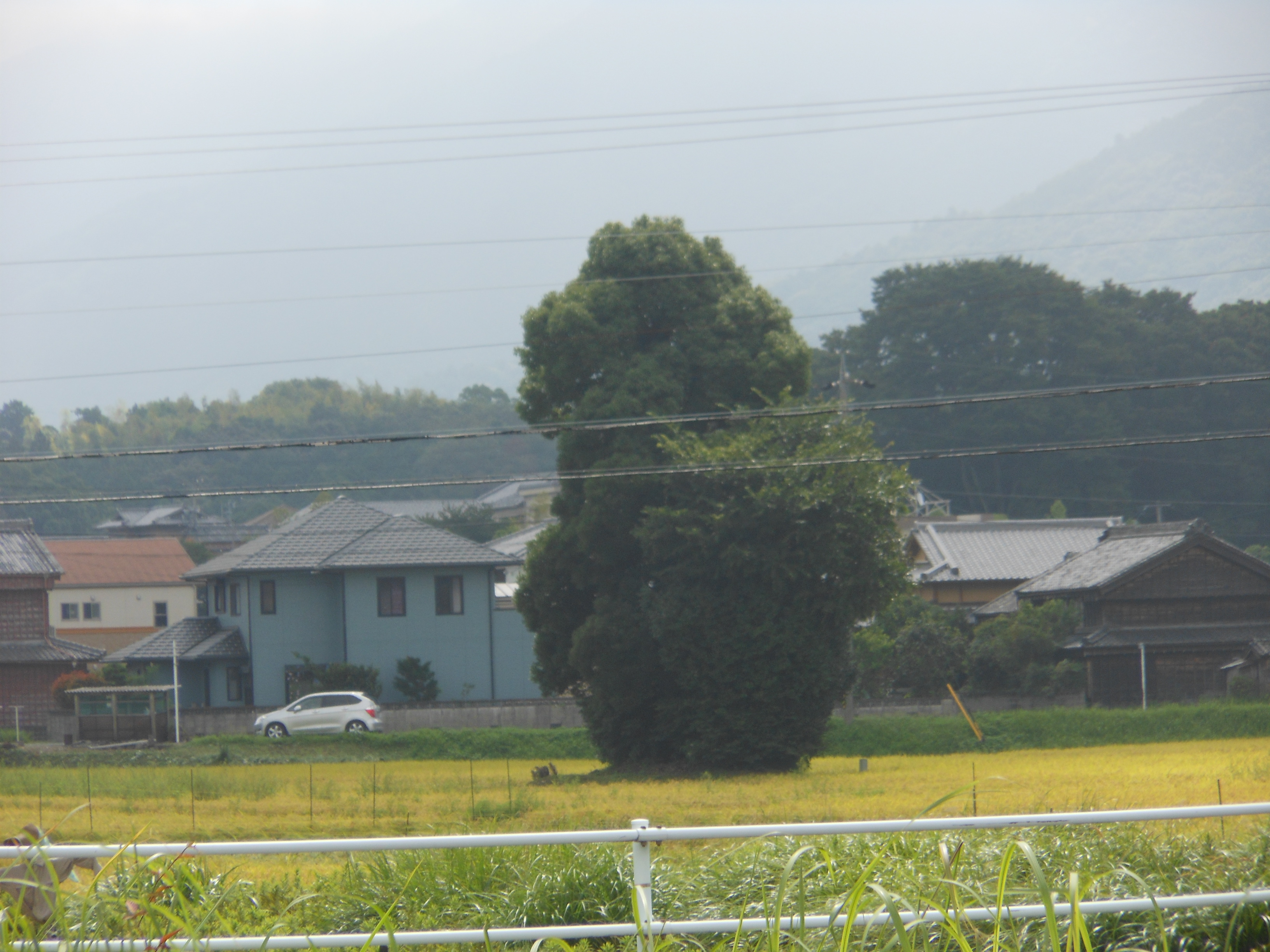 This is the Koujo's Forest in Ise, Mie, Japan. This is the site of Uji-no-Nuki shrine.